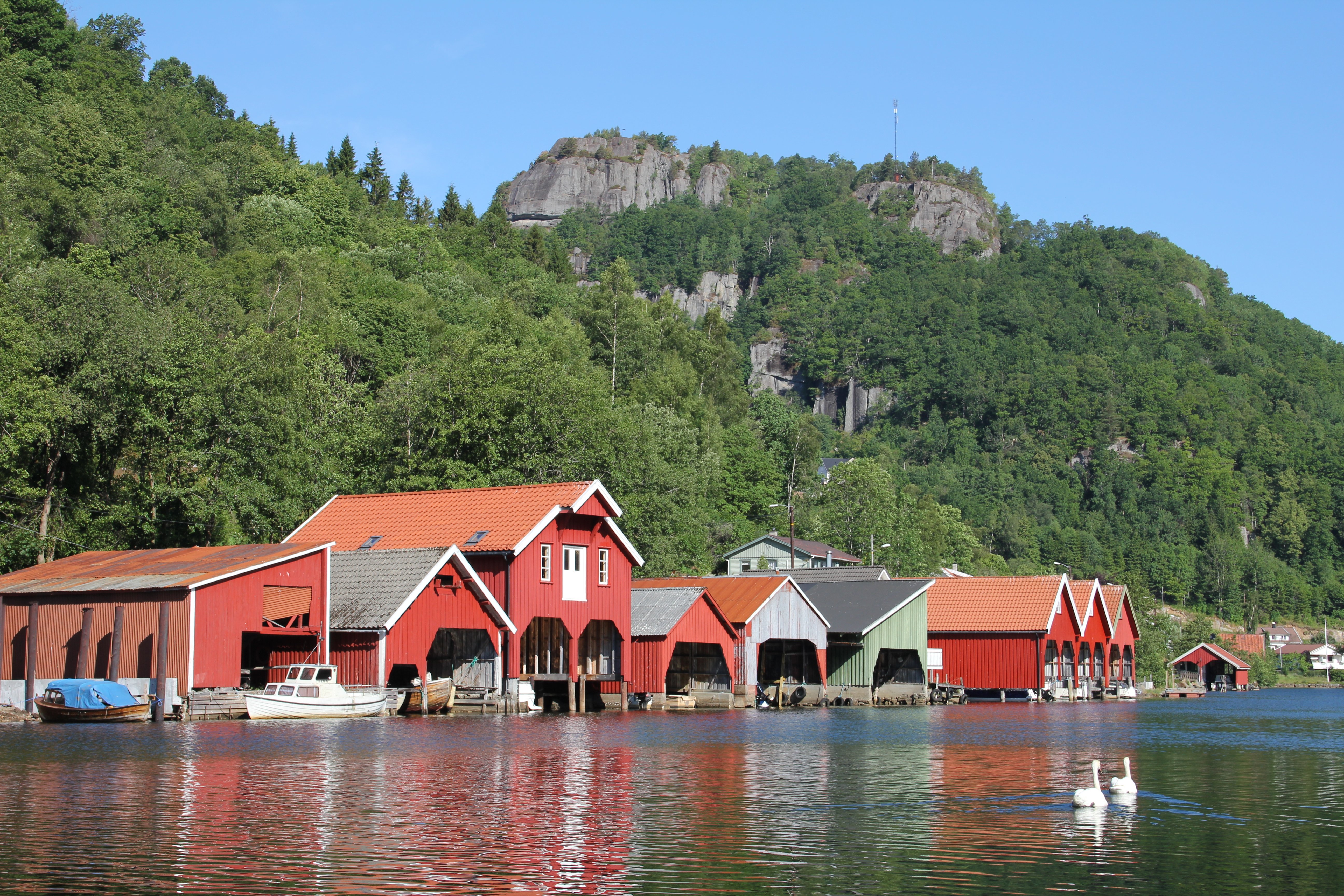 Fedaelva, Feda river in Feda, Kvinesdal